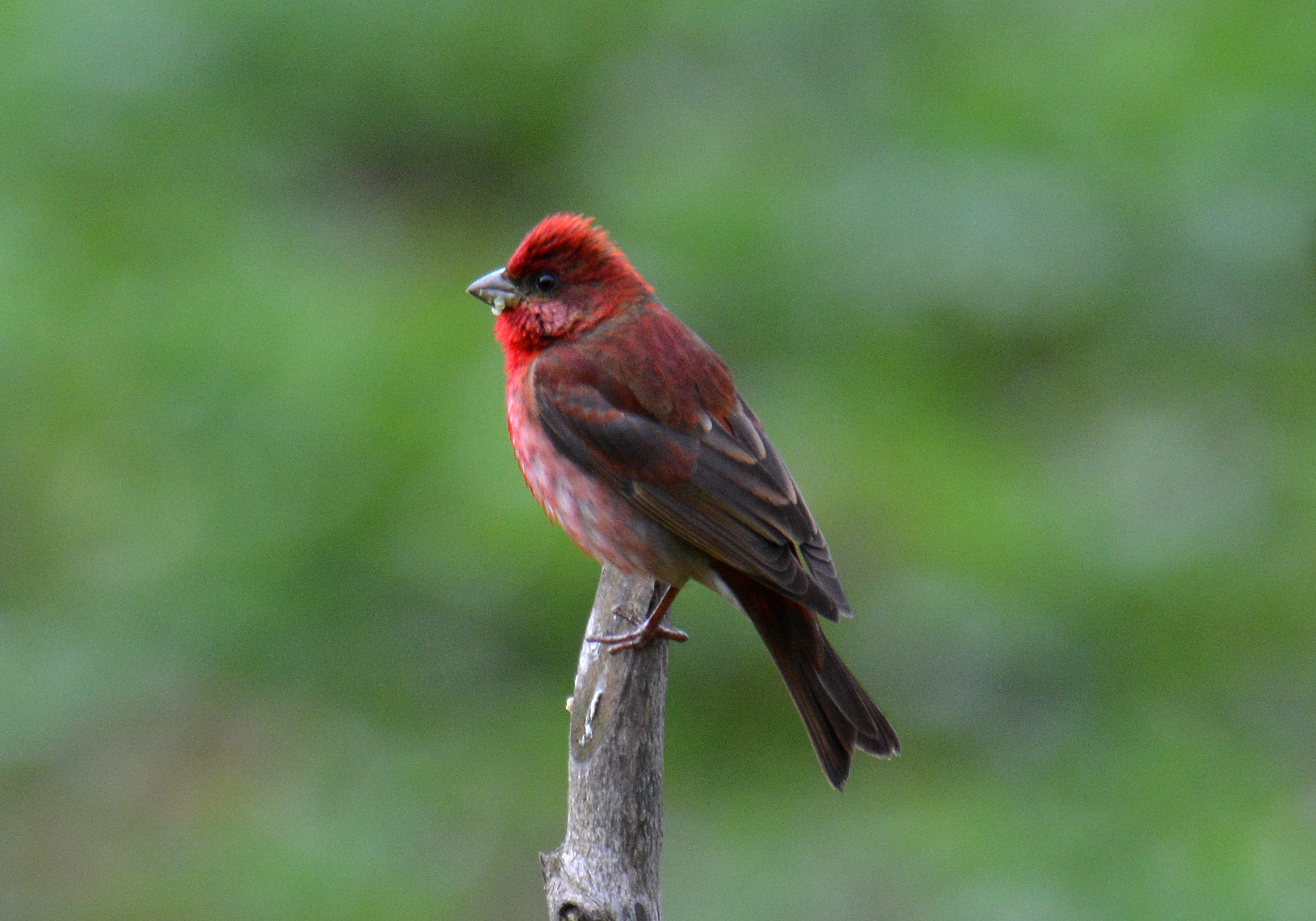 Common Rosefinch Carpodacus erythrinus. Photo taken in Bhutan.